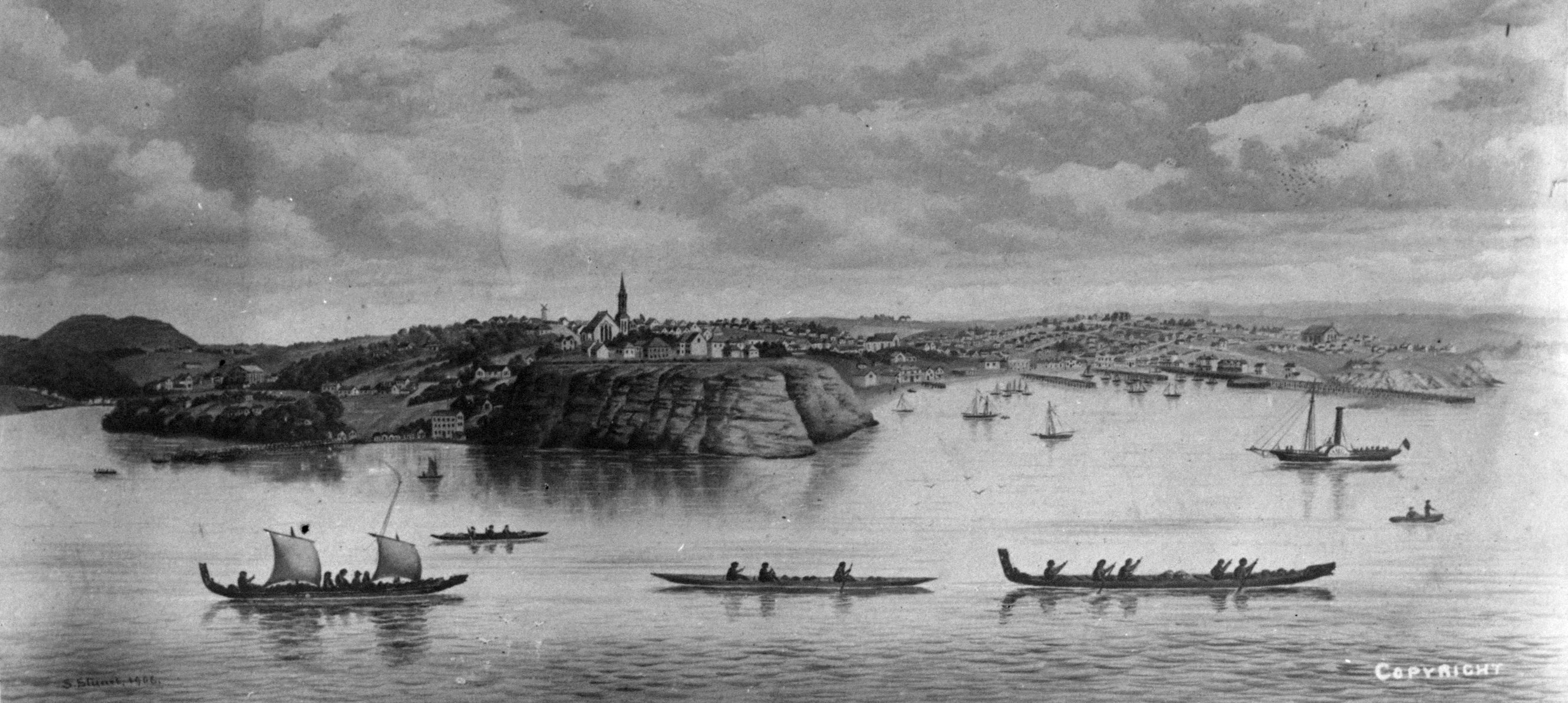 Oil painting by Samuel Stuart showing the Auckland Waterfront with Māori waka and the original St Paul's church beyond Point Britomart, in 1852.